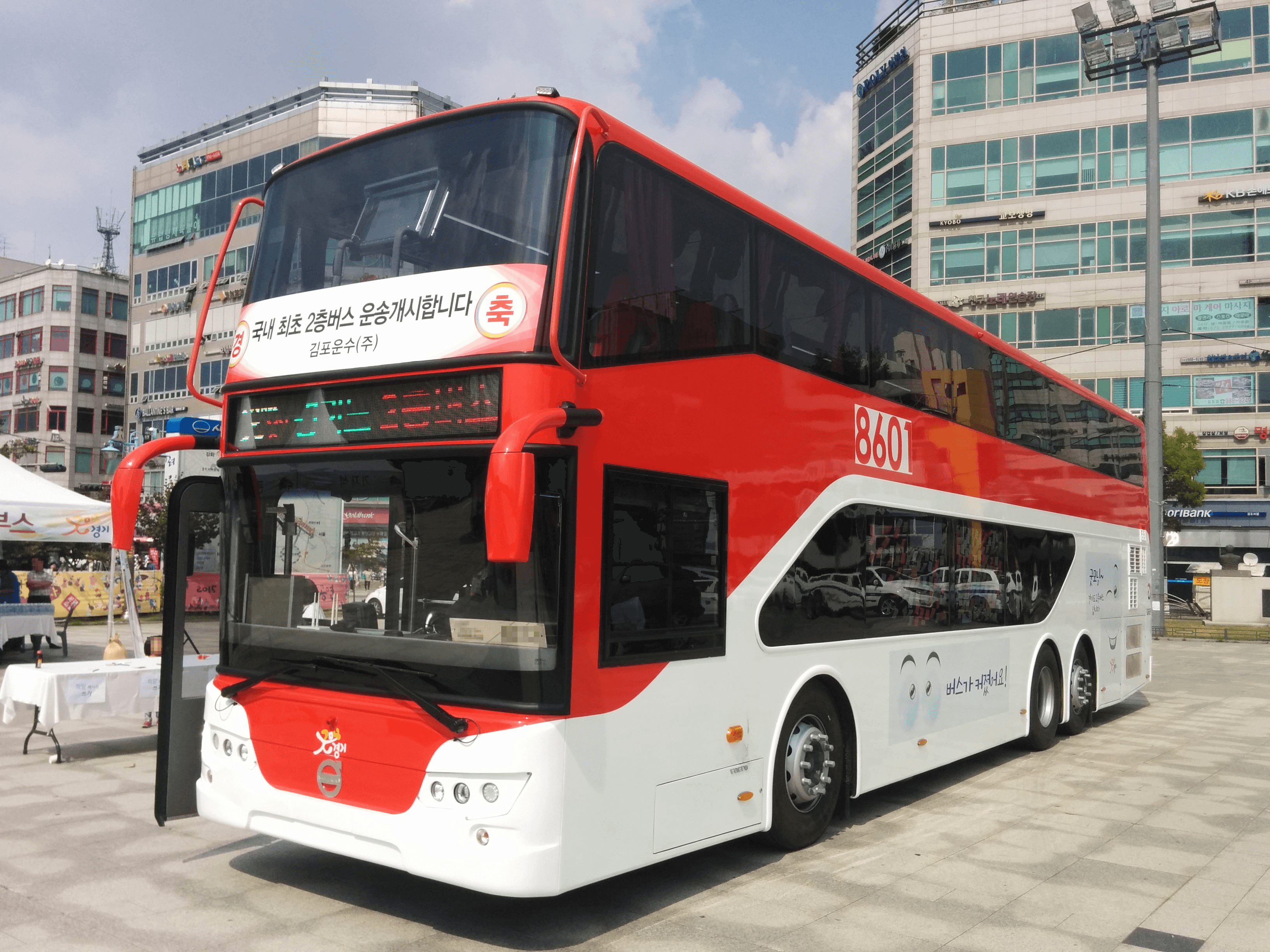 Front-left side of Daji-bodied Volvo B8RLE Double-decker bus.